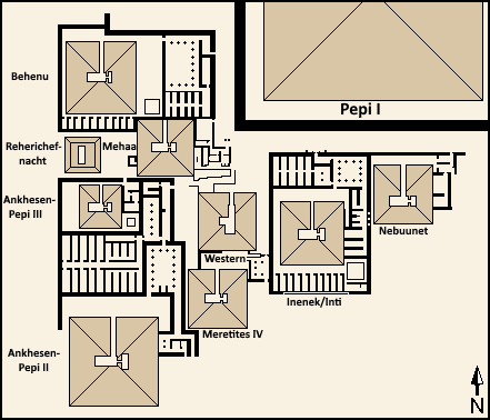 An annotated map of the necropolis south-west of Pepi I's pyramid, drawn by Mr rnddude with reference to MAFS here